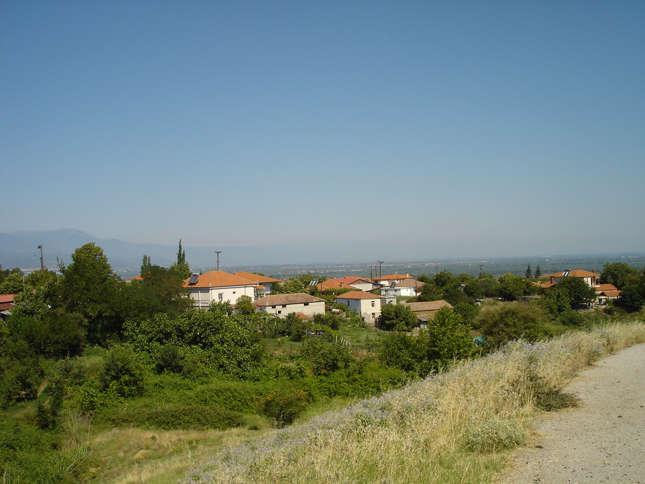 village of Kutlesh, Vergina in Aegean Macedonia, Veroia prefecture of Greece